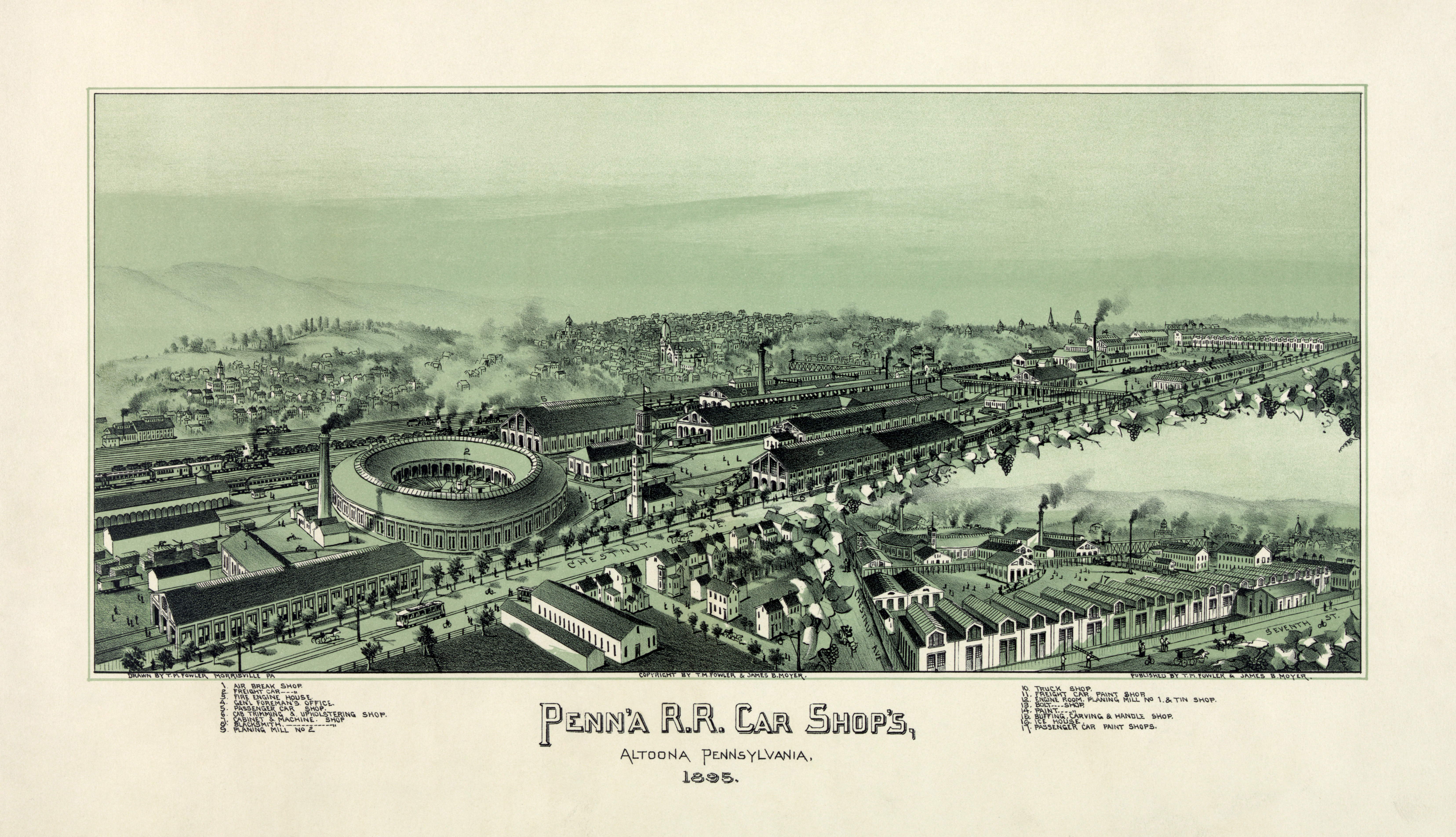 Penn'a R.R. Car Shop's, Altoona, Pennsylvania, 1895, [sic] Thaddeus Mortimer Fowler and James B. Moyer's lithograph showing the town of Altoona in 1895, a town created to serve the Pennsylvania Railroad